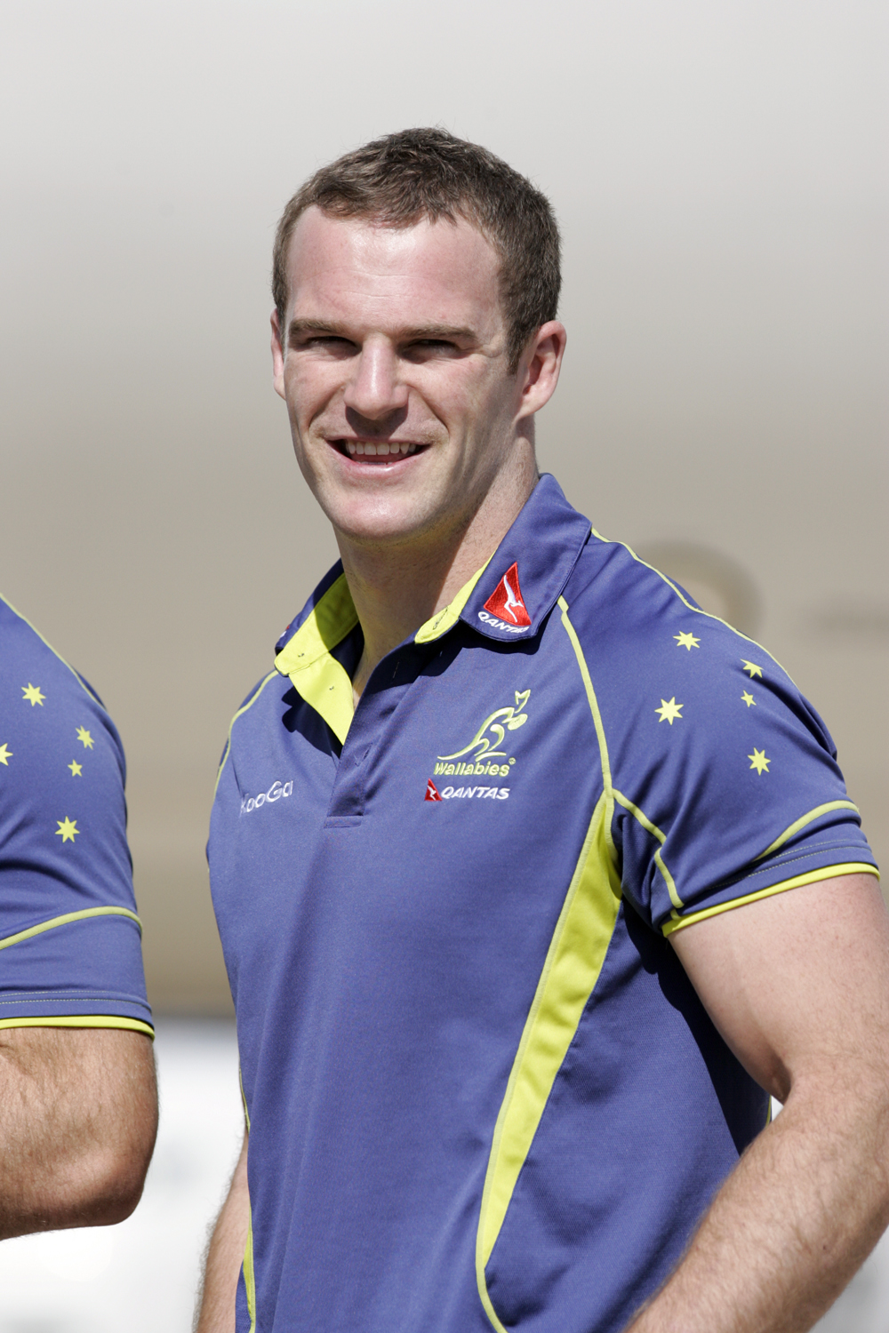 The Qantas Wallabies unveil a Boeing 737-800 aircraft sporting a giant moustache which will fly around the country for the month of November raising awareness of prostate cancer and men's mental health.